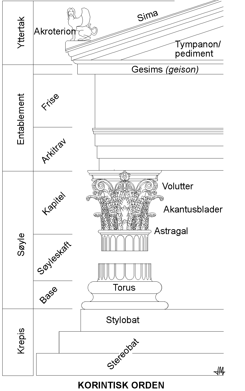 Modification of Soyleorden korintisk.png, correct term in Norwegian